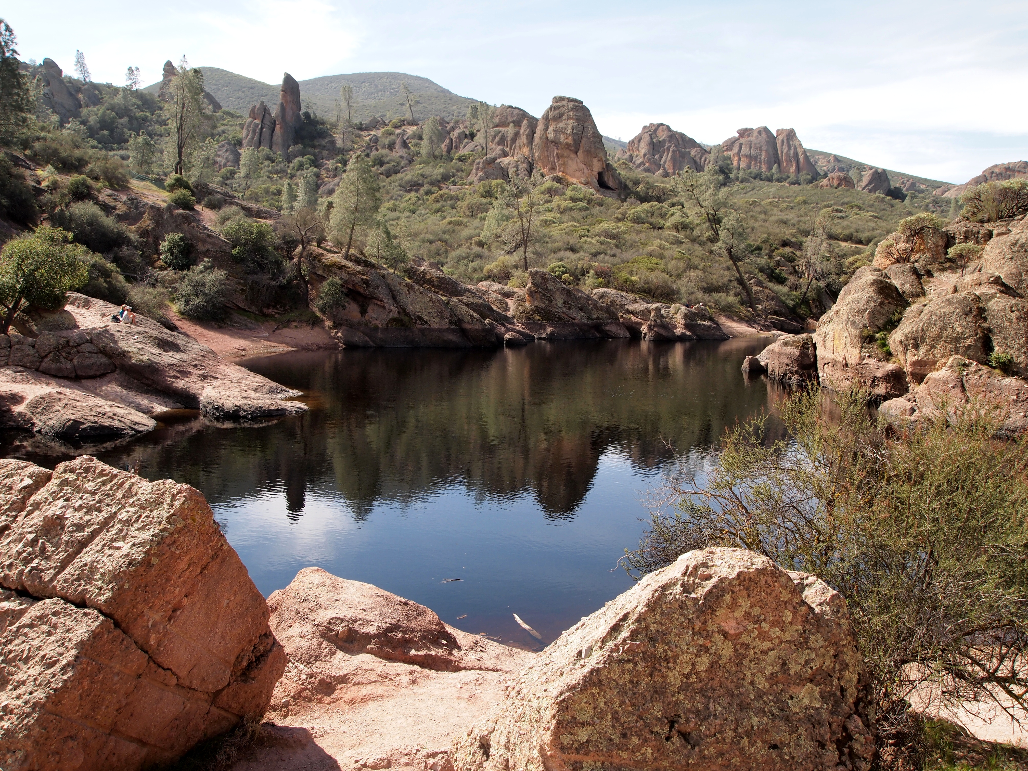 View from near the dam of the Bear Gulch reservoir at Pinnacles National Park, California, United States of America.